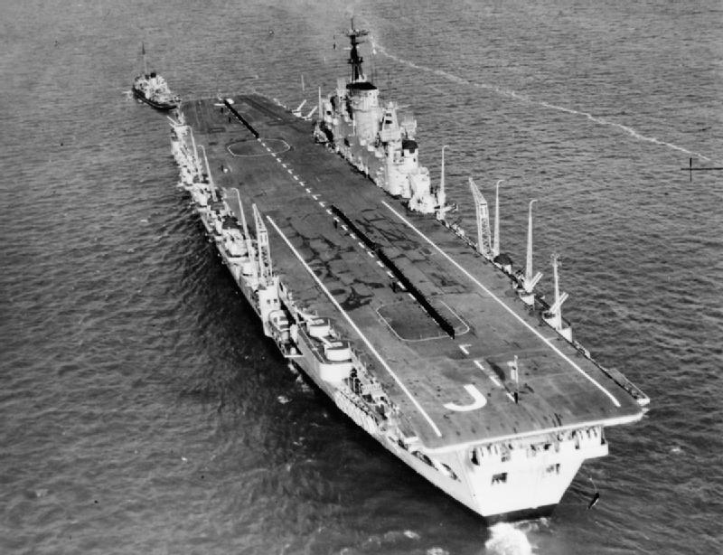 The Royal Navy aircraft carrier HMS Eagle (R05) after her trials after her commissioning.